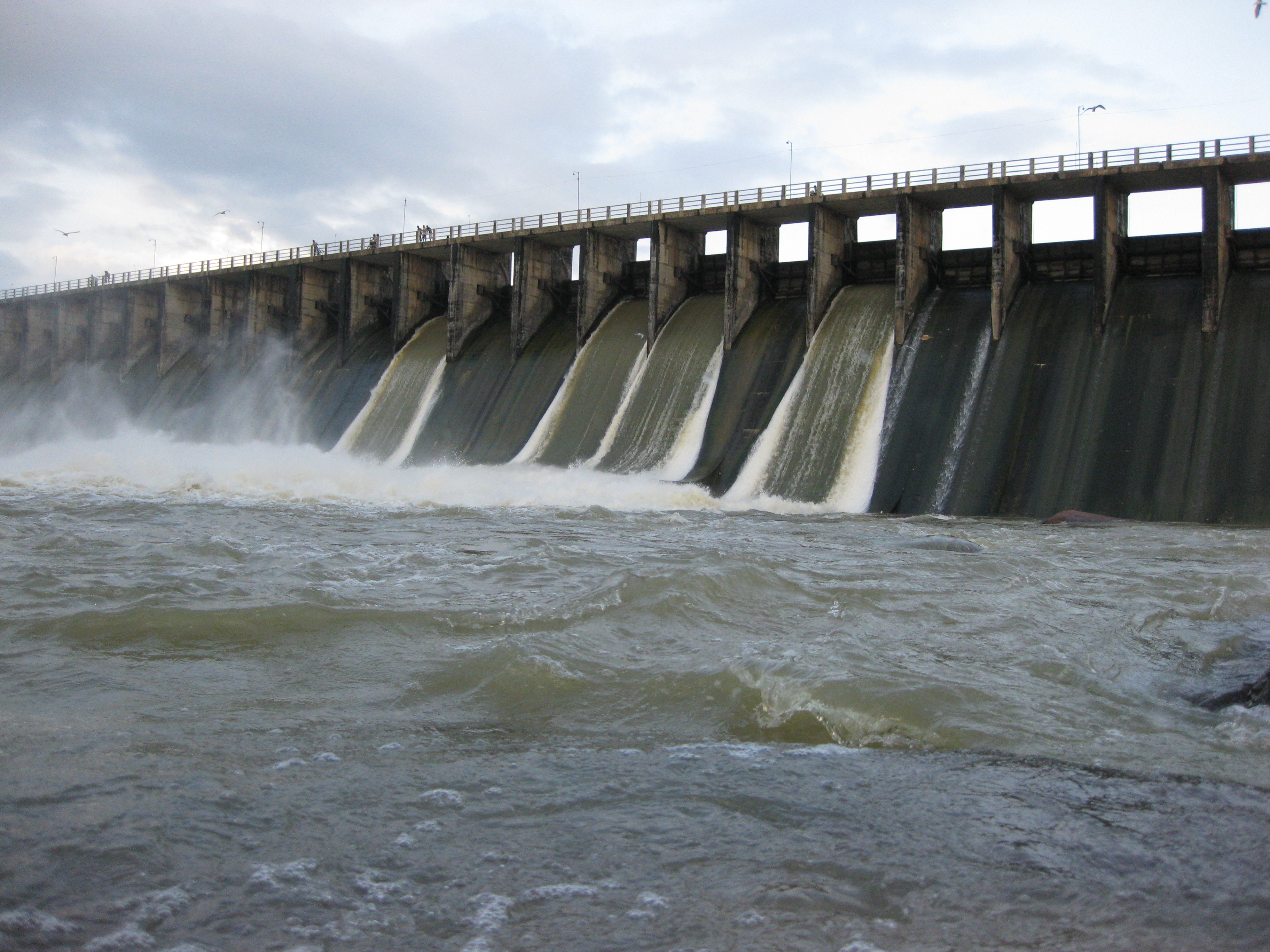 The Rajanganaya Dam in Sri Lanka. සිංහල: ශ්‍රී ලංකාවේ රාජාංගනය ජලාශයේ ඇති වාන් බැම්ම.